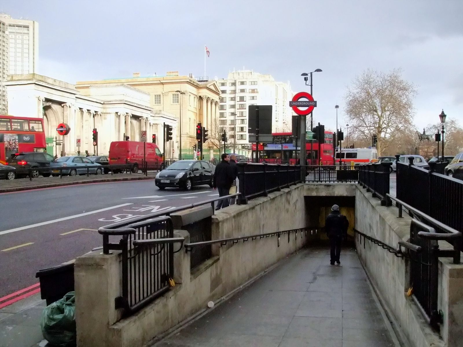 Hyde Park Corner tube station subway entrance on the southwest side of the road junction